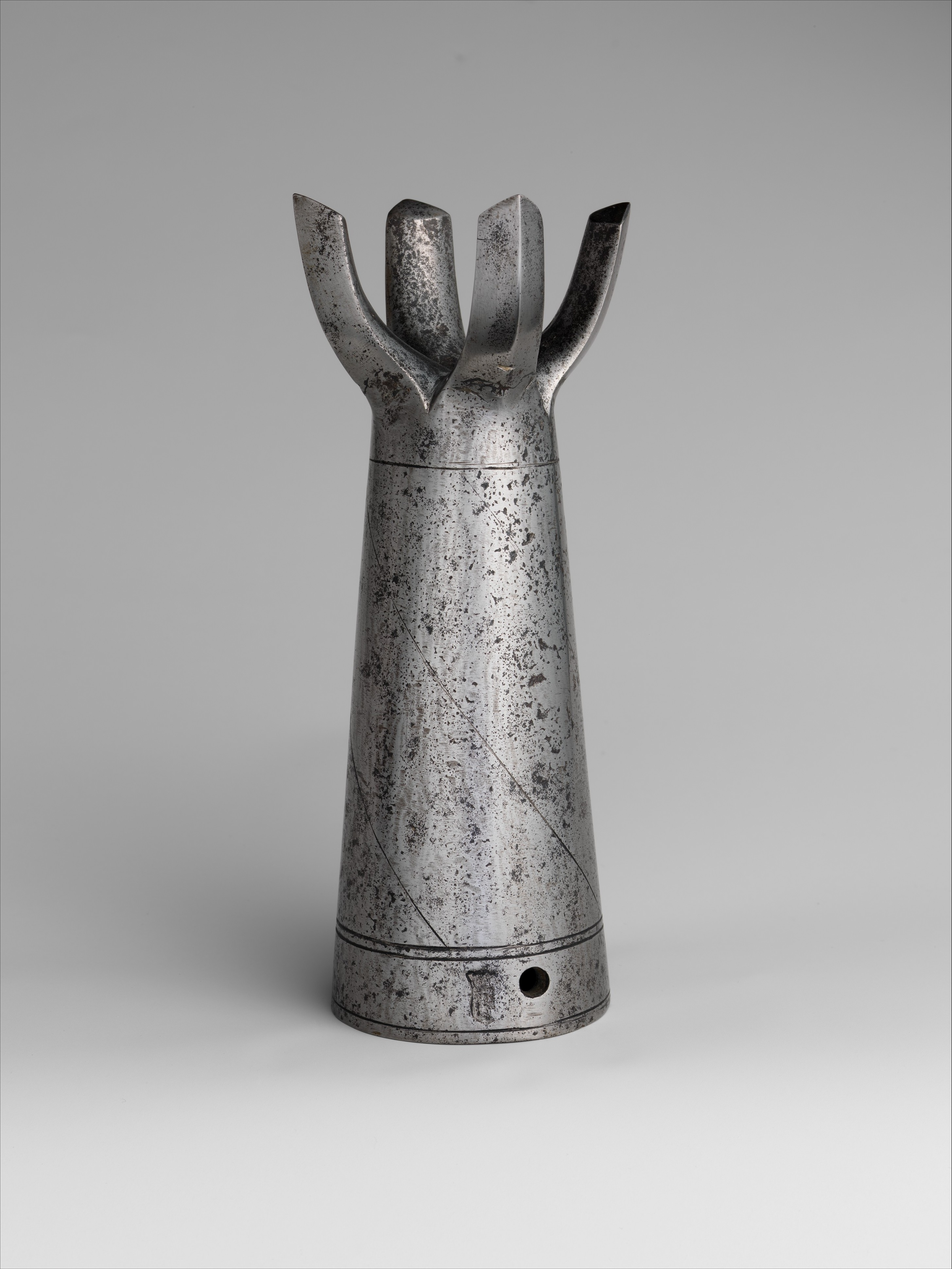 German; Lance head for the joust of peace; Shafted Weapons